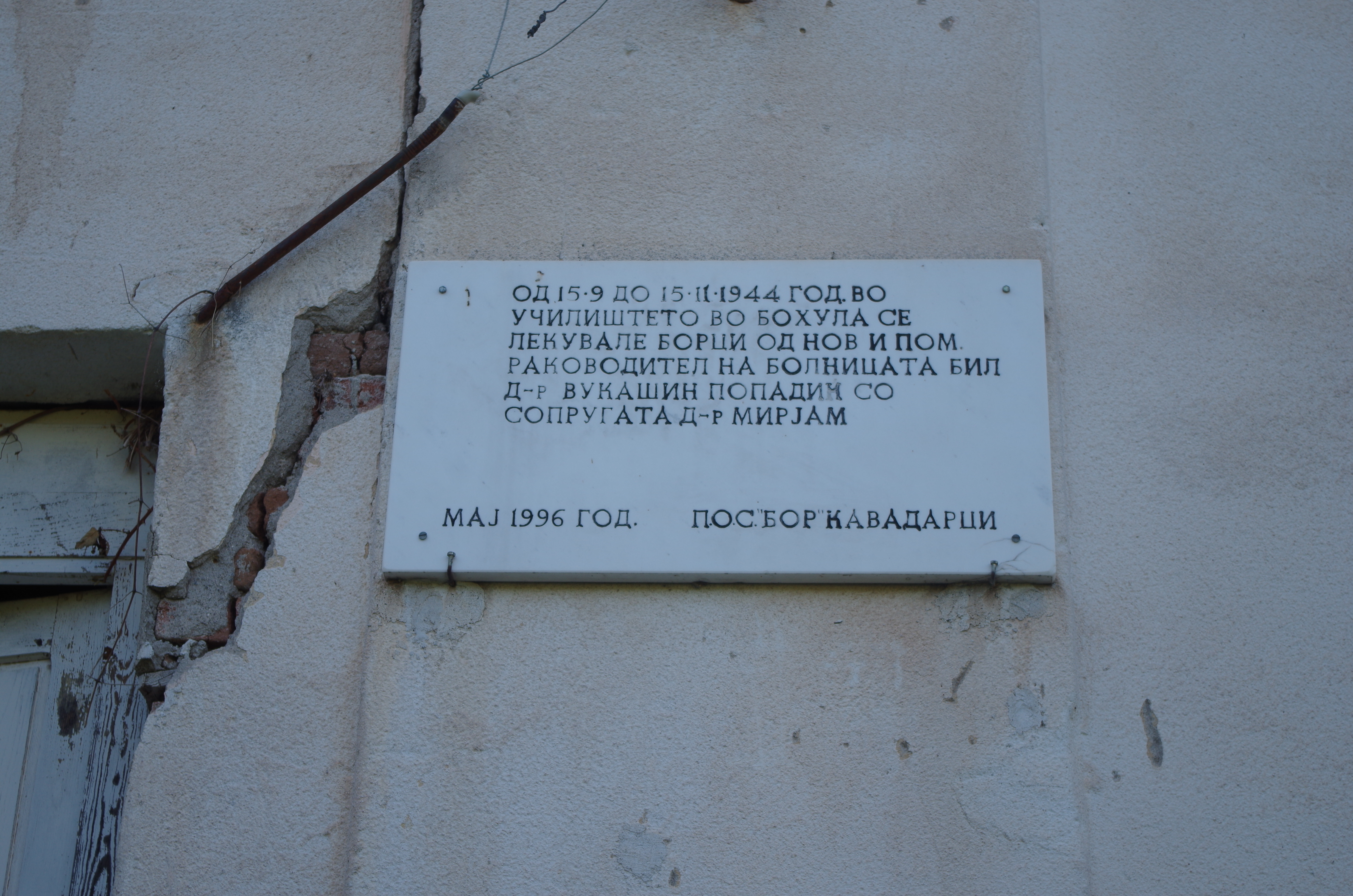 Inscription plate on the former school building in the village of Bohula